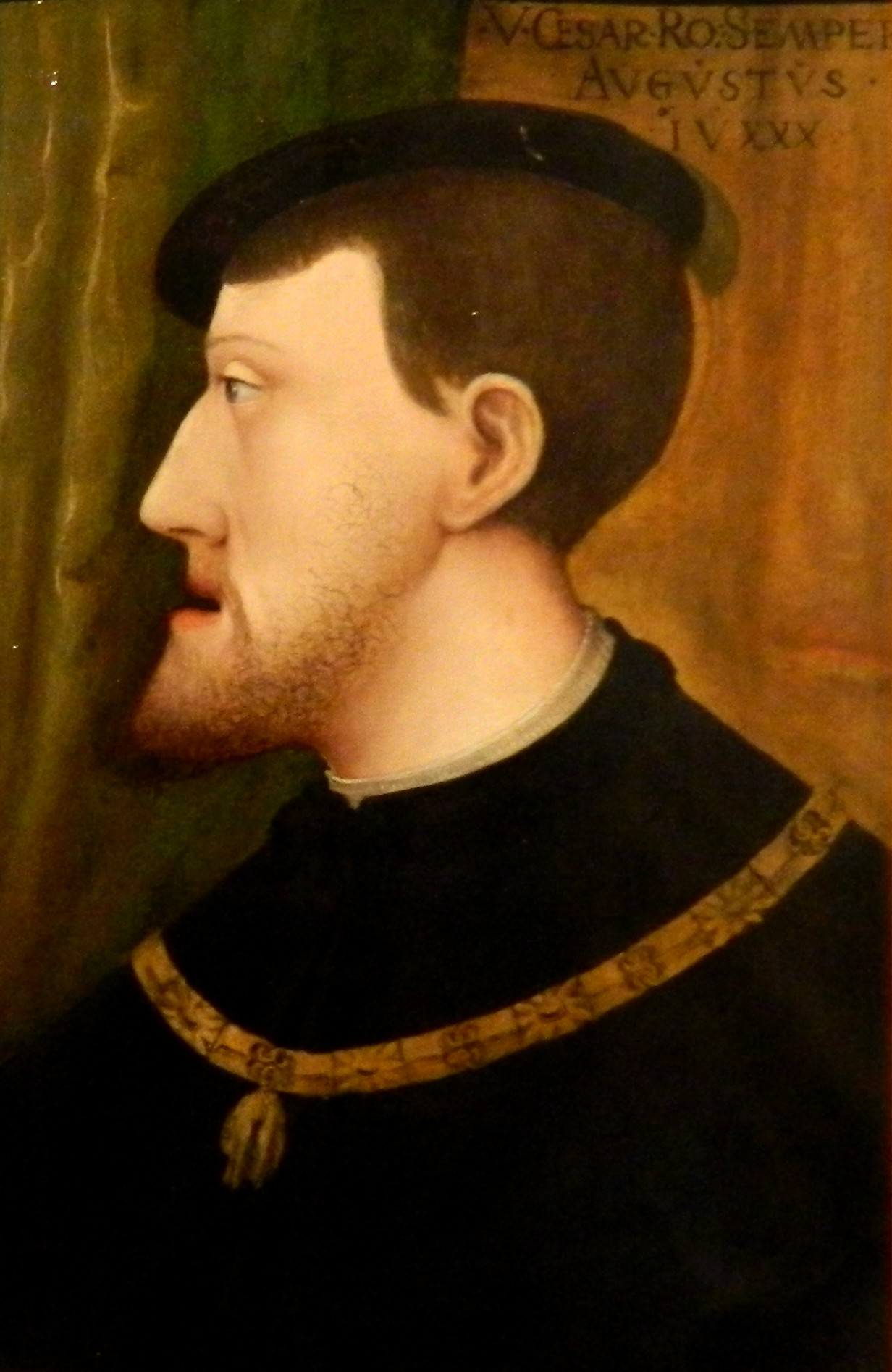 Spanish artist - Portrait of Emperor Charles V (Museum of Fine Arts, Budapest).